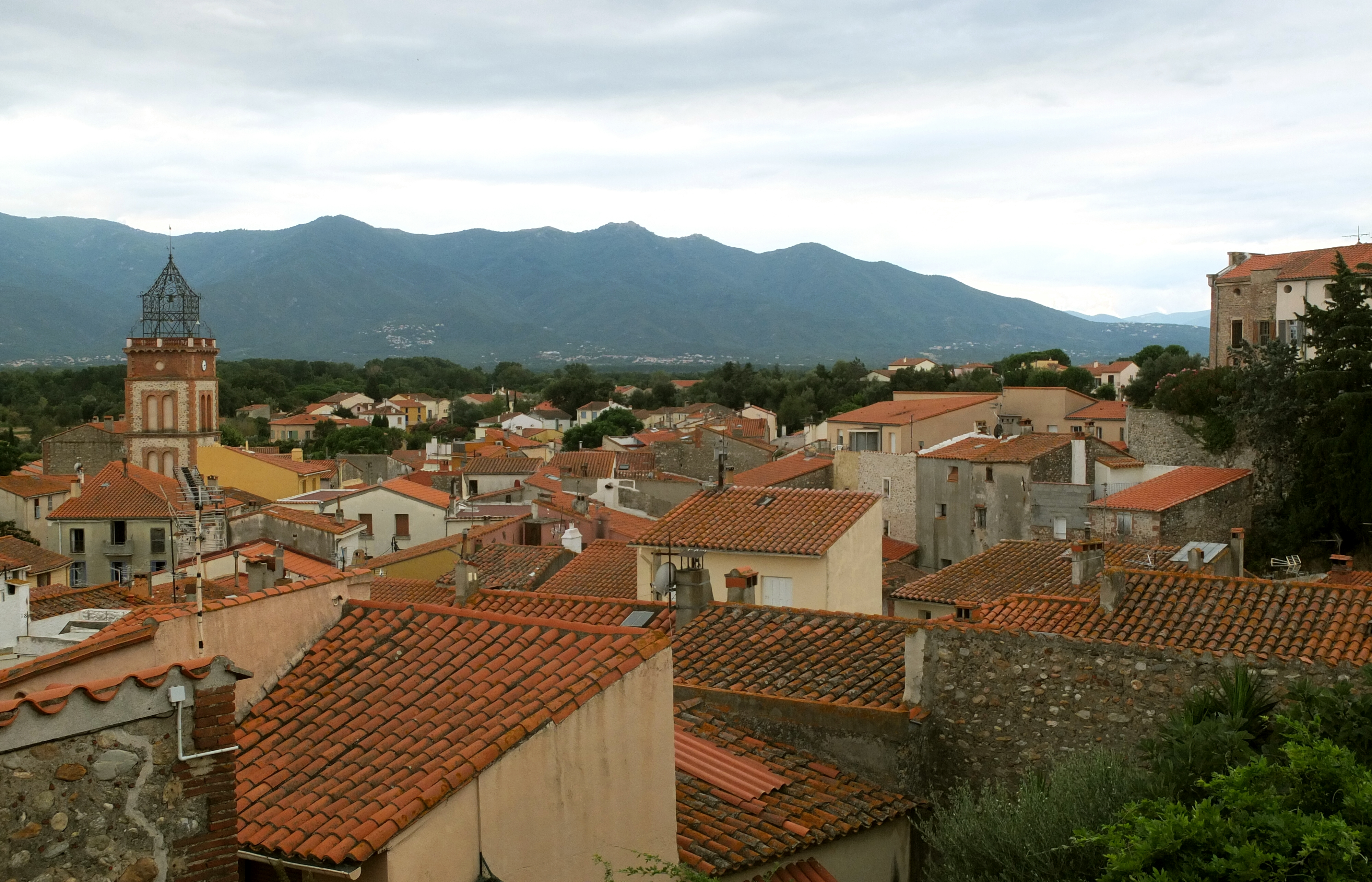 Ortaffa, Roussillon, France: general view seen from the church Sainte-Eugénie